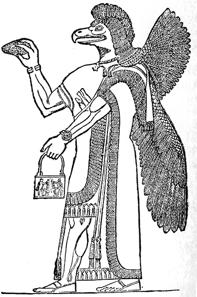 Nisroch, the Orisis of Nineveh